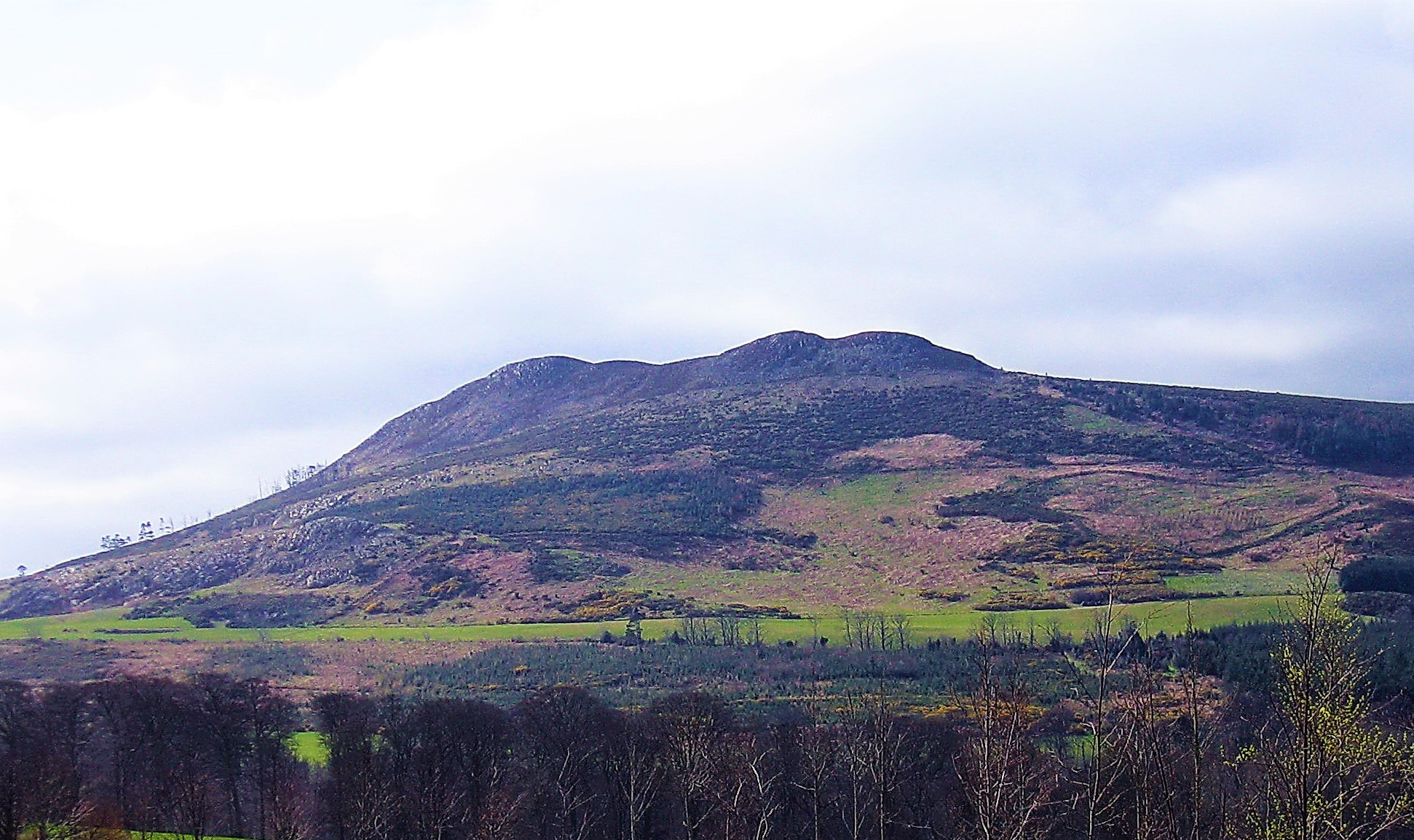 The Little Sugar Loaf near Bray in County Wicklow